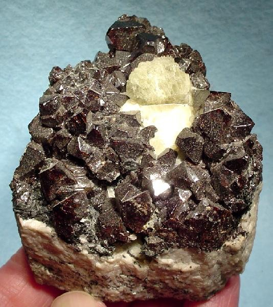 Pyrochlore Locality: Vishnovogorsk, Chelyabinsk Oblast', Southern Urals, Urals Region, Russia (Locality at ) Size: 7.5 x 6.4 x 5.8 cm. A fine specimen covered with sharp, glassy and partially gemmy, burnished brown pyrochlore octahedrons aesthetically covering matrix on this very fine specimen from Veshnovogorsk, Ural Mts., Russia. Pyrochlore is an uncommon niobium oxide. Ex. Fersman Collection.